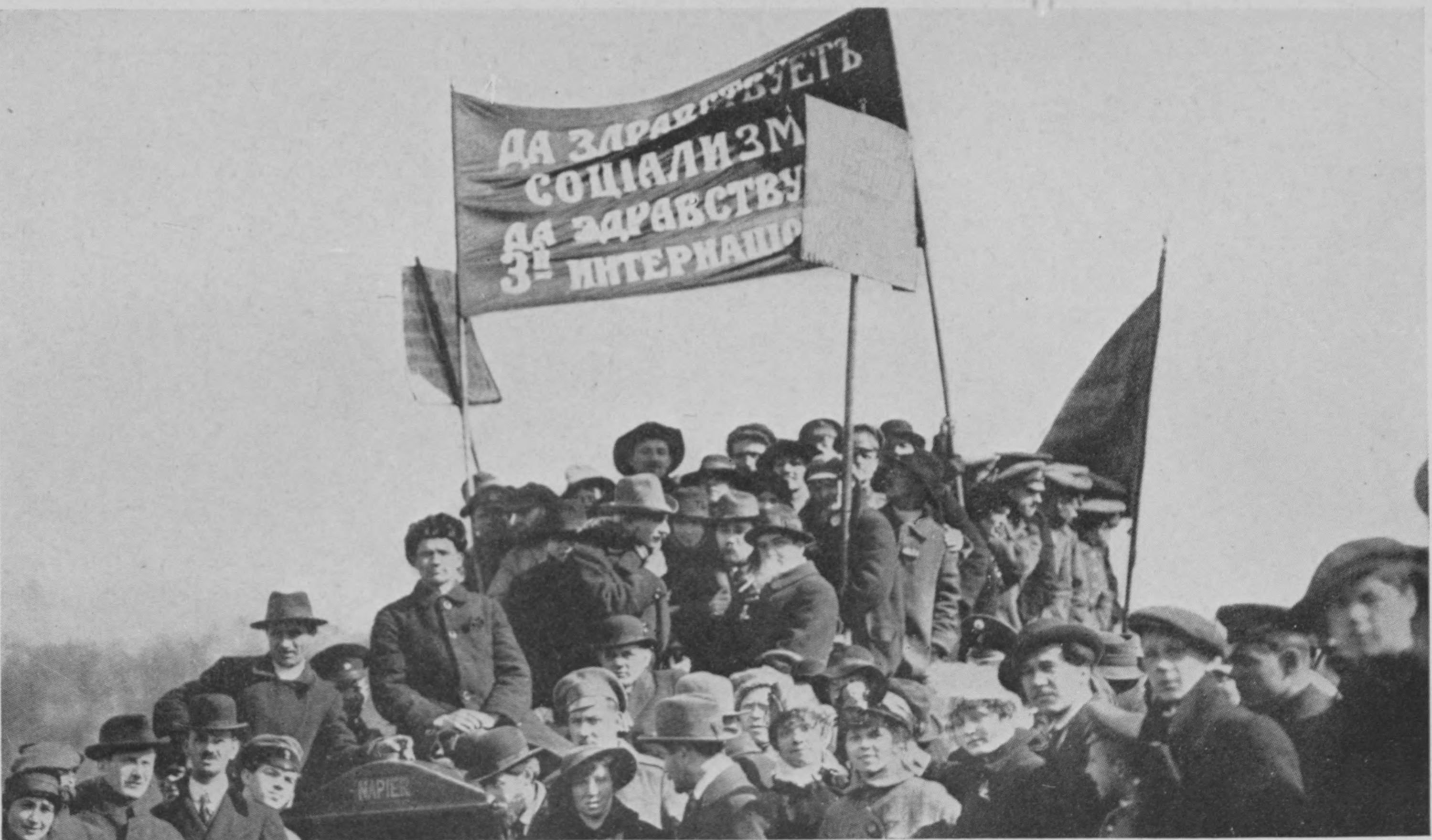 Pro-bolshevik demonstration, July 1917.